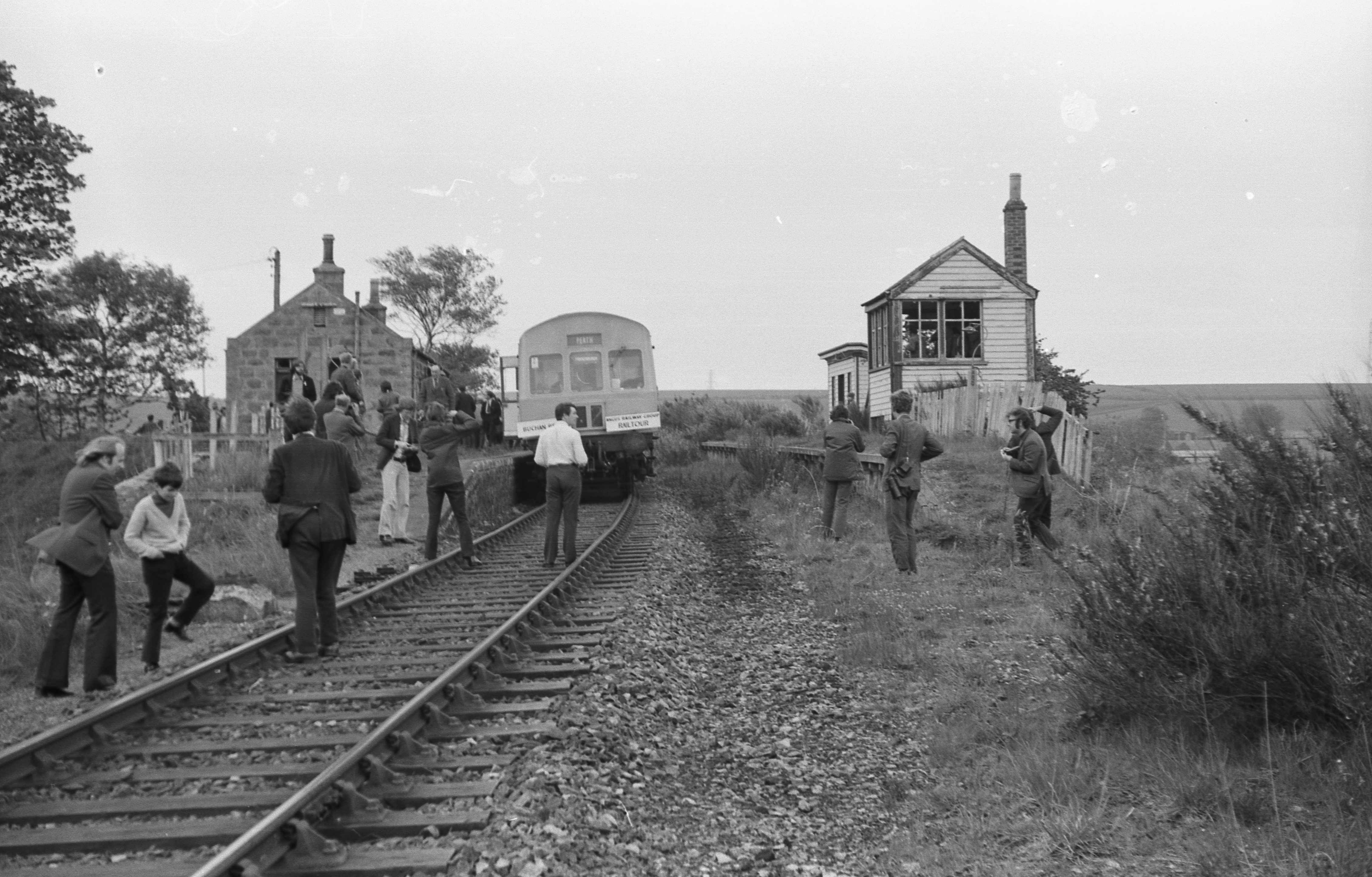 Buchan Belle railtour on 1st June 1974 at Strichen in North east Scotland.